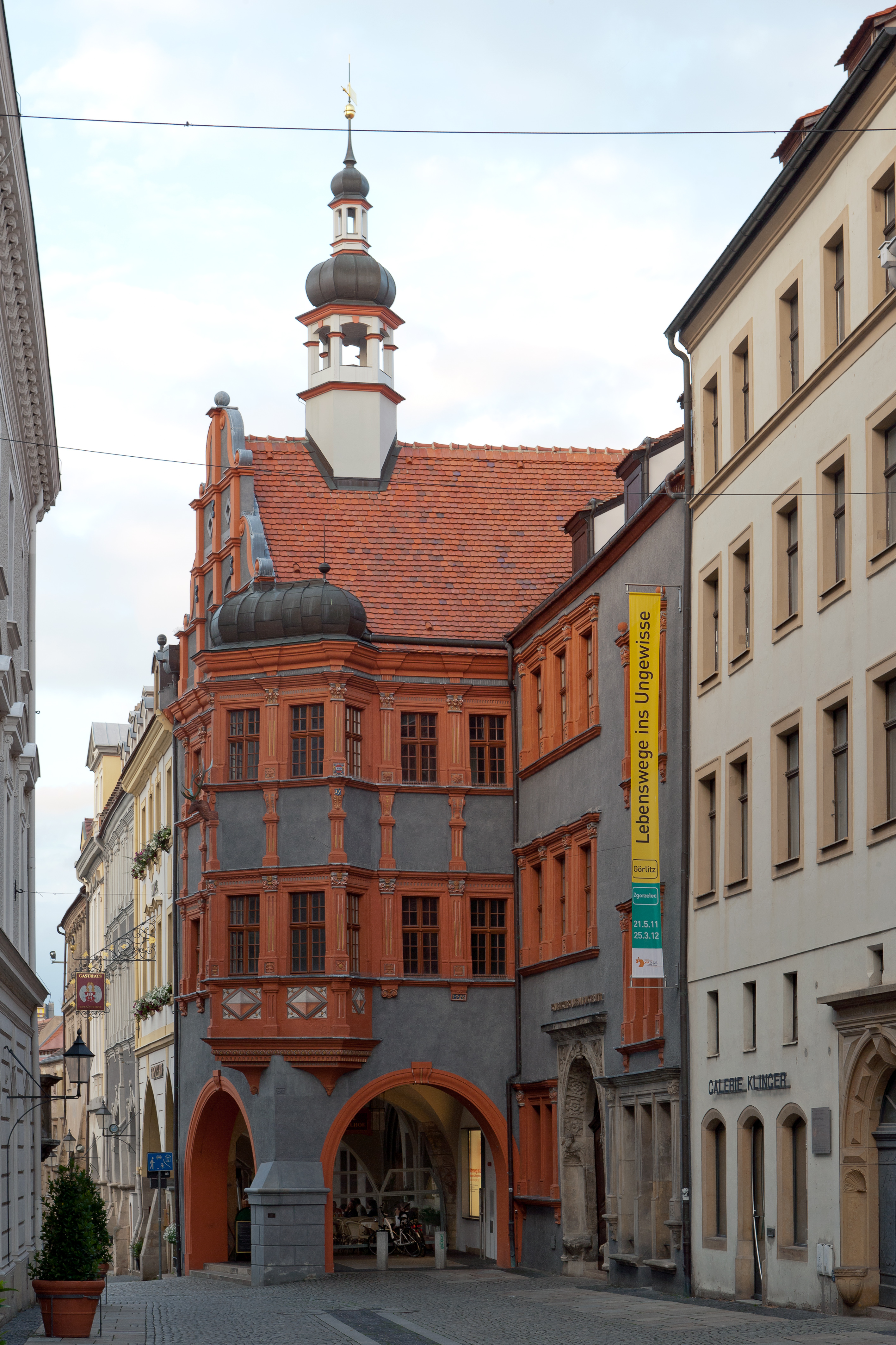 Görlitz: Schönhof as seen from the west